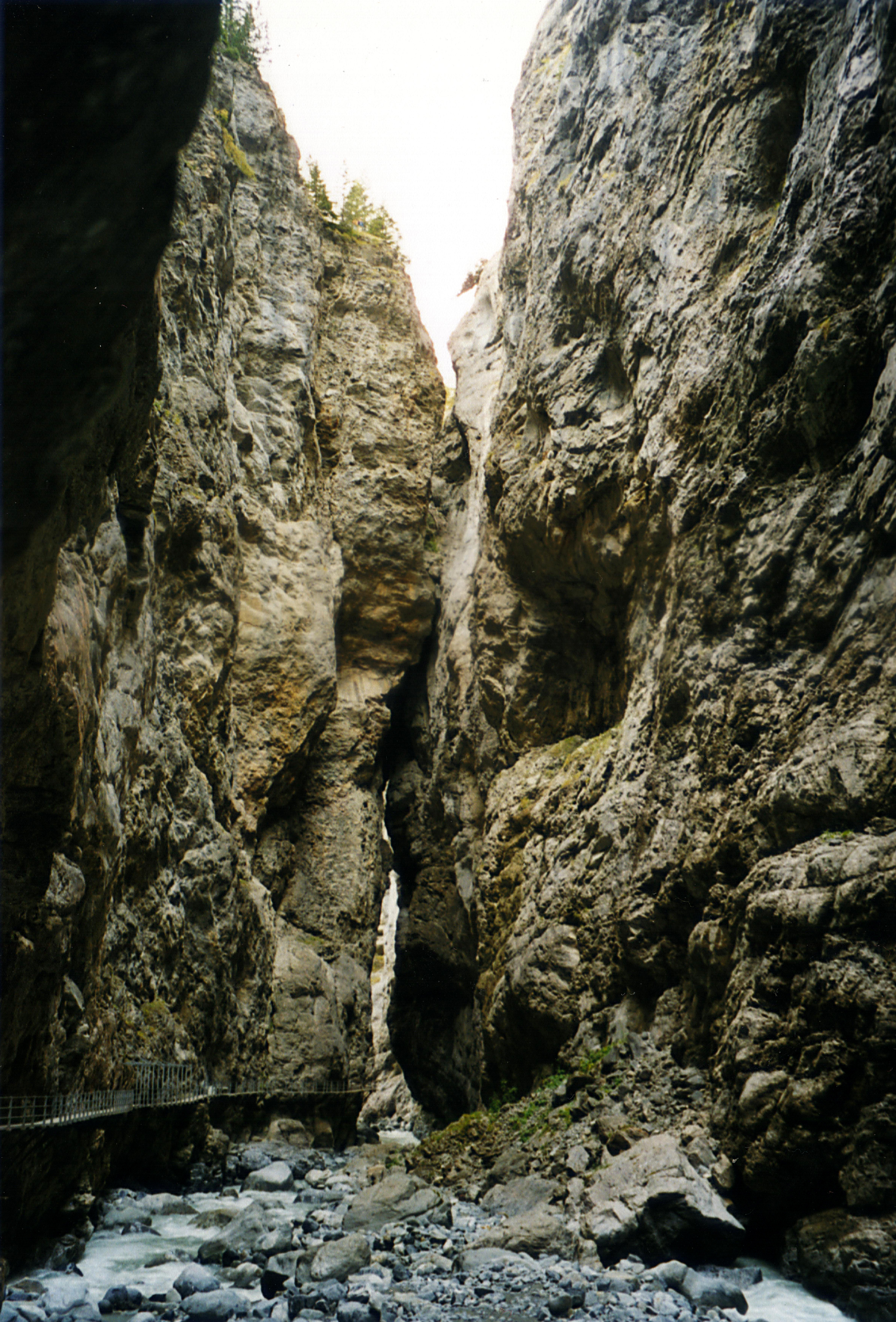 The Gletscherschlucht in Grindelwald, Switzerland, looking backward from the turning point.